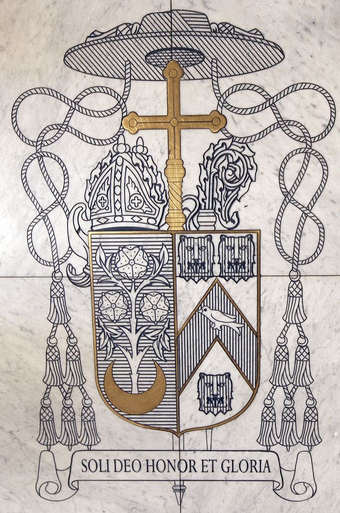 Architectural detail of interior, Cathedral of the Immaculate Conception, Mobile, Alabama